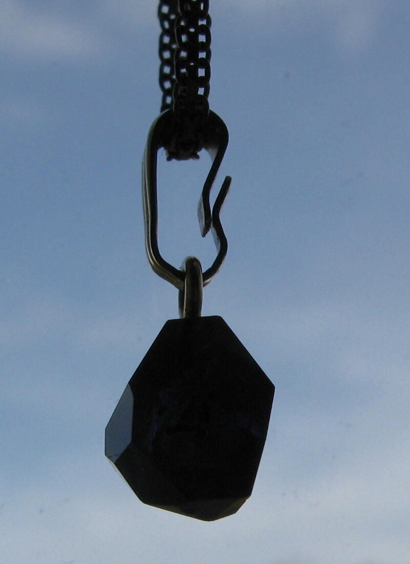 Cordierite - bevellinged with necklace - view on blue-violet a-axis